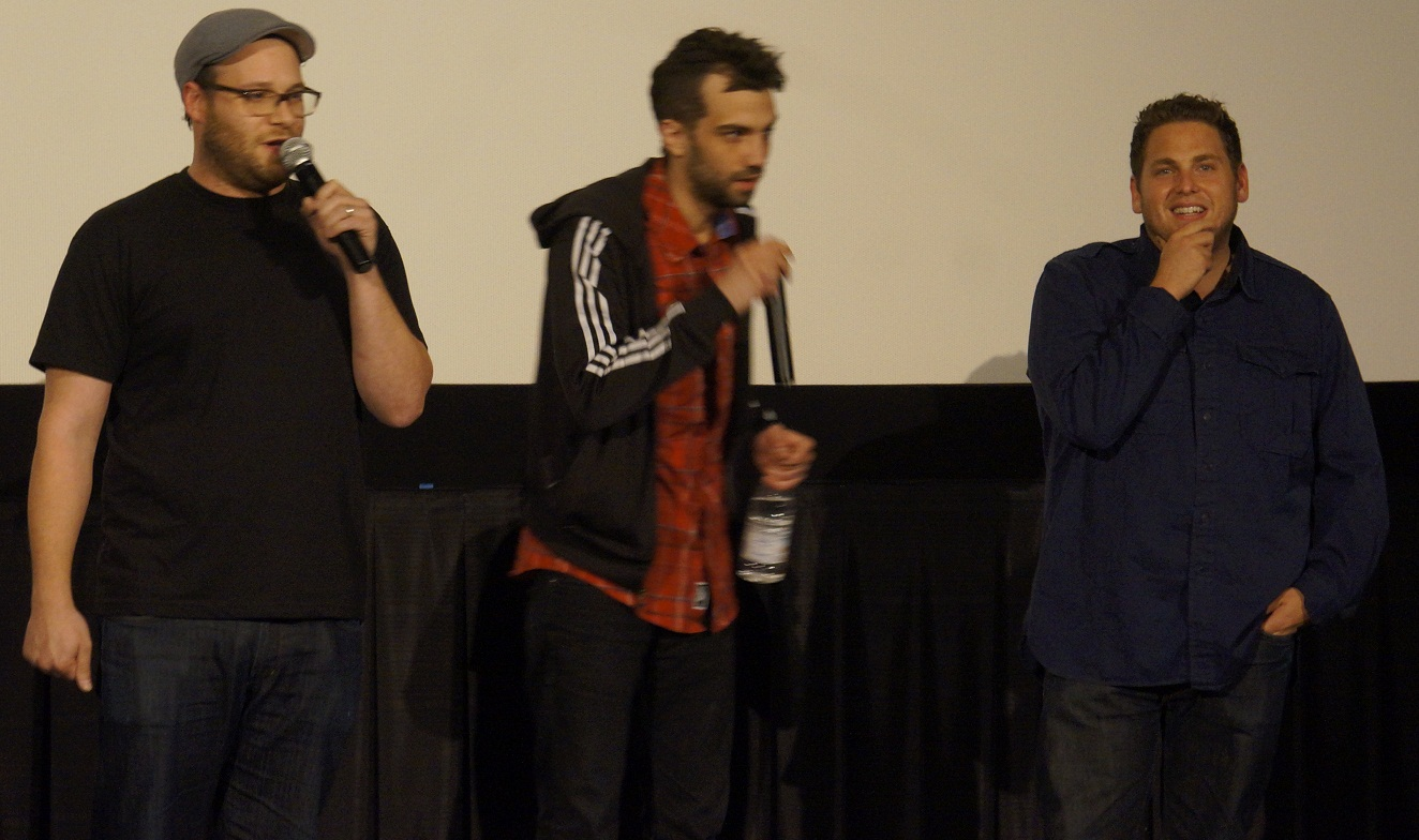 Seth Rogen, Jay Baruchel, Jonah Hill at the screening of "This Is the End" in June 12, 2013